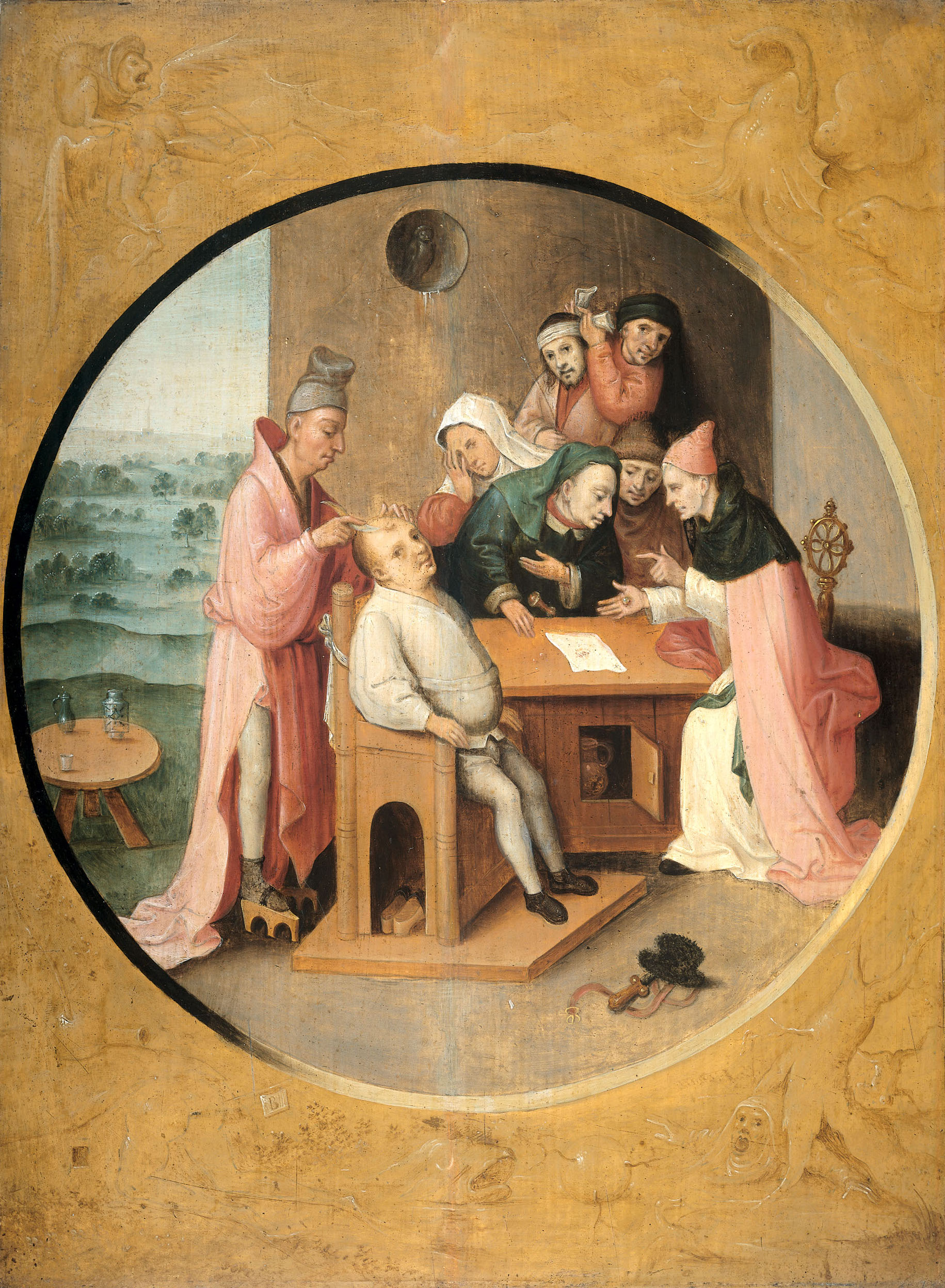 Cutting the stone. A man is bound to a chair while another man cuts the stone from his head. To the right visitors are sitting around a table. On the table lays a cut-out stone. On the painted circular frame a number of grotesque figures are sketched.